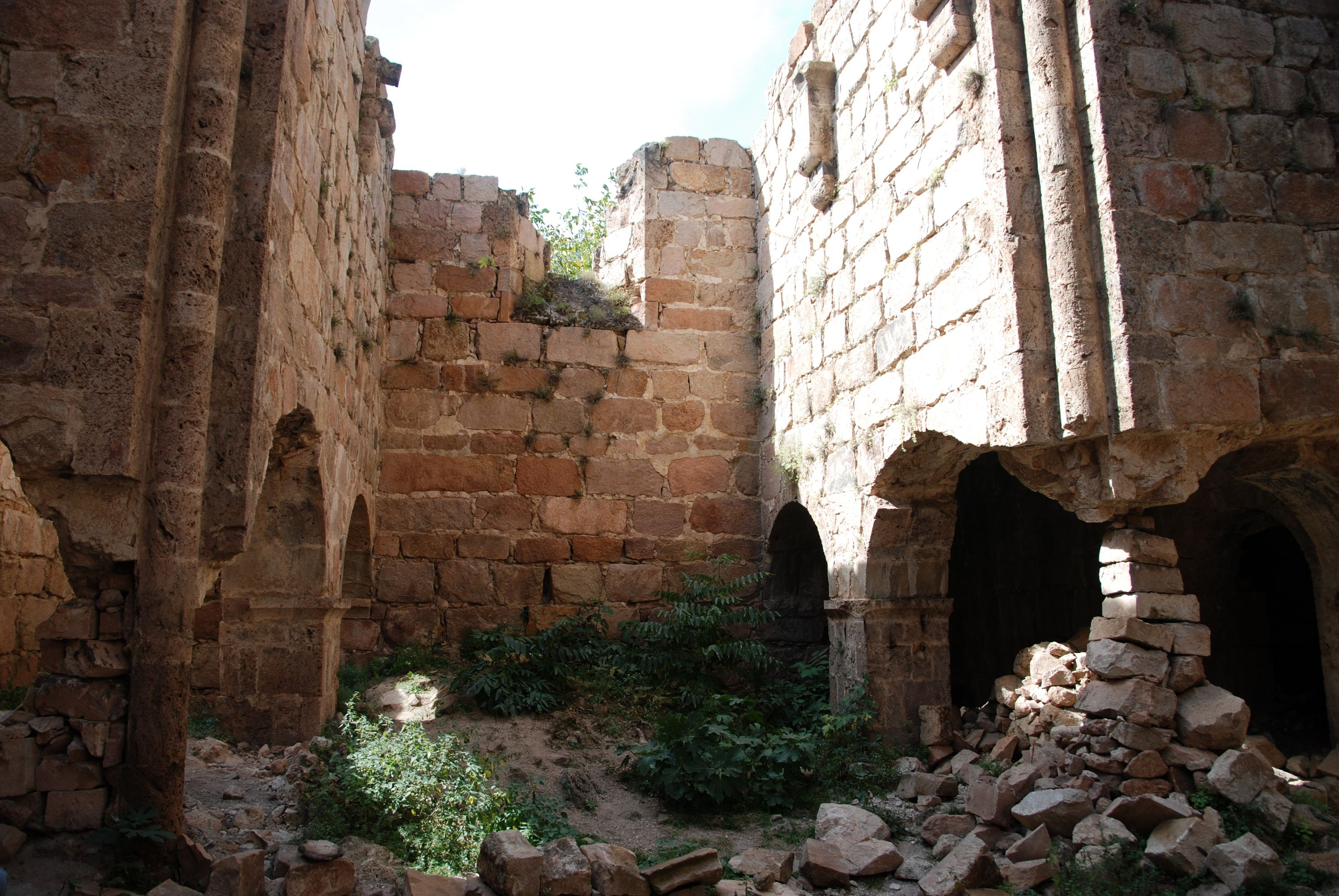 Porta, or Khandzta, Georgian monastery in Artvin province, nave